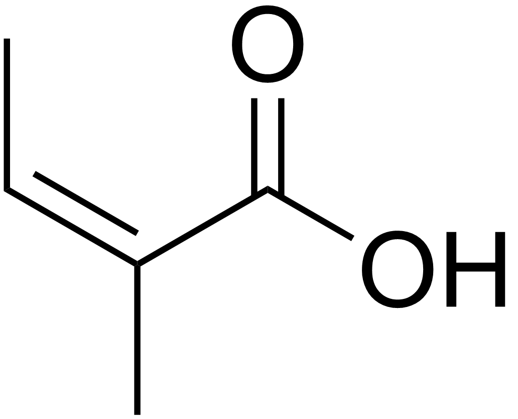 Chemical structure of angelic acid